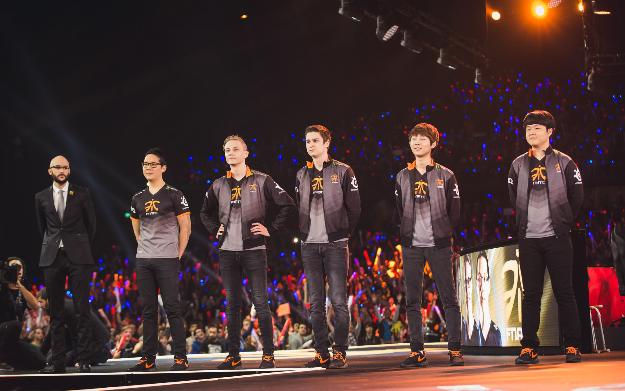 Players for Fnatic on stage at the 2015 League of Legends World Championship semi-finals in Brussels 500px provided description: 1cun6612 Jpg [#lol ,#s5 ,#Brussels]